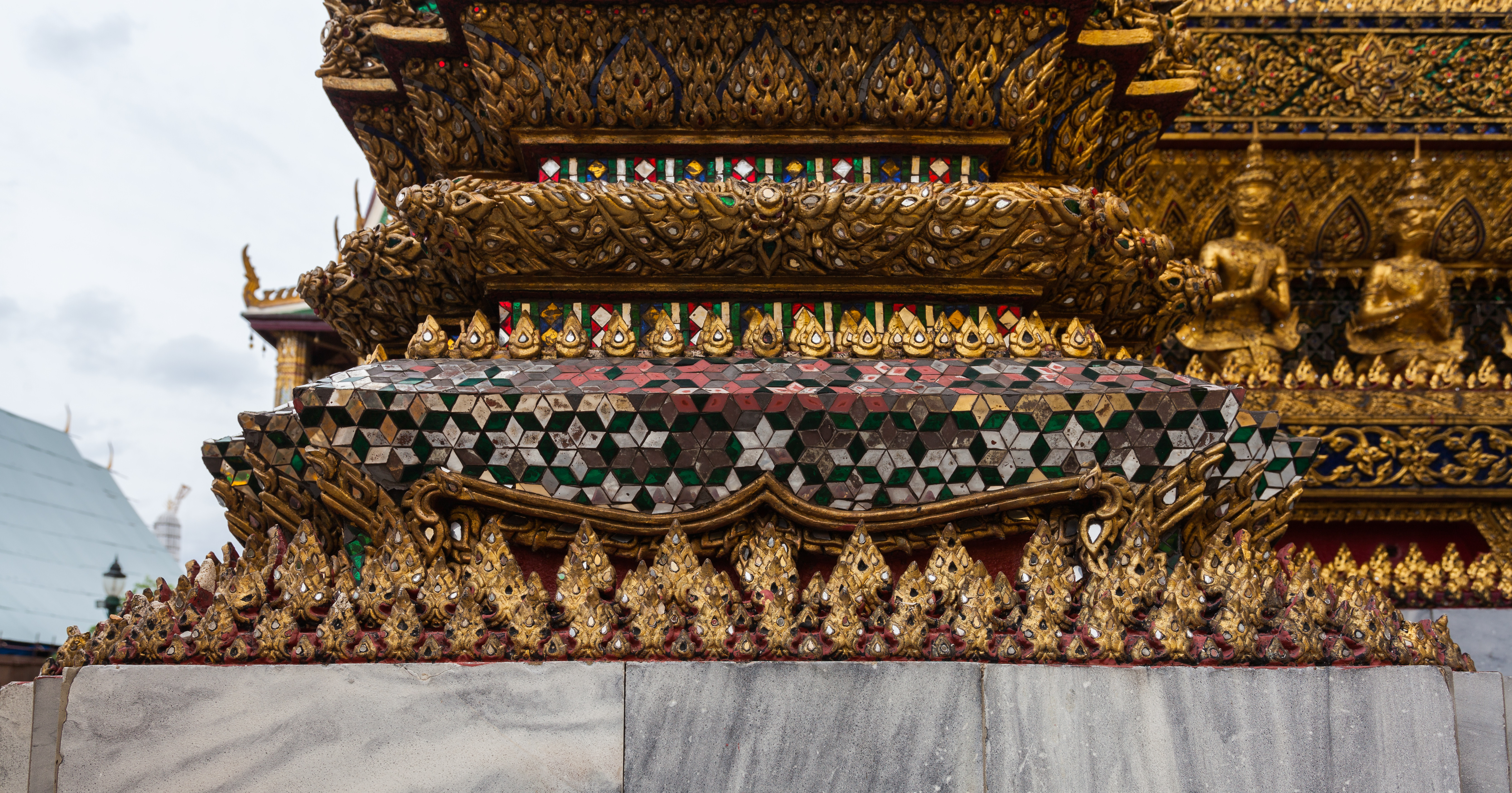 Grand Palace, Bangkok, Thailand